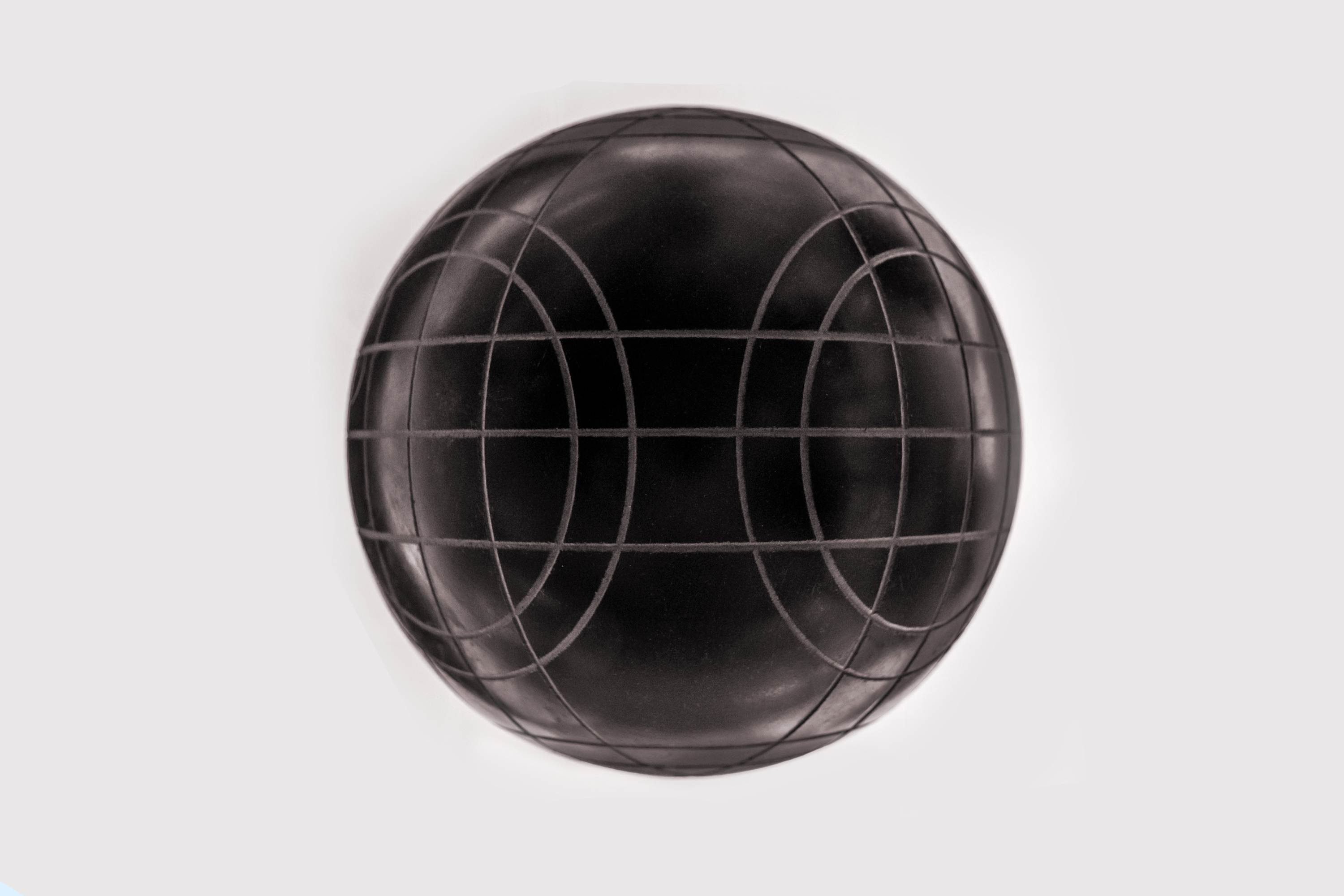 Bolas Criollas is a traditional team sport from Venezuela, very popular in the Llanos and most rural regions. It is one of the most representative icons of Llanero culture. Its origins can be traced back to traditional European sports, such as Boccia and Pétanque.